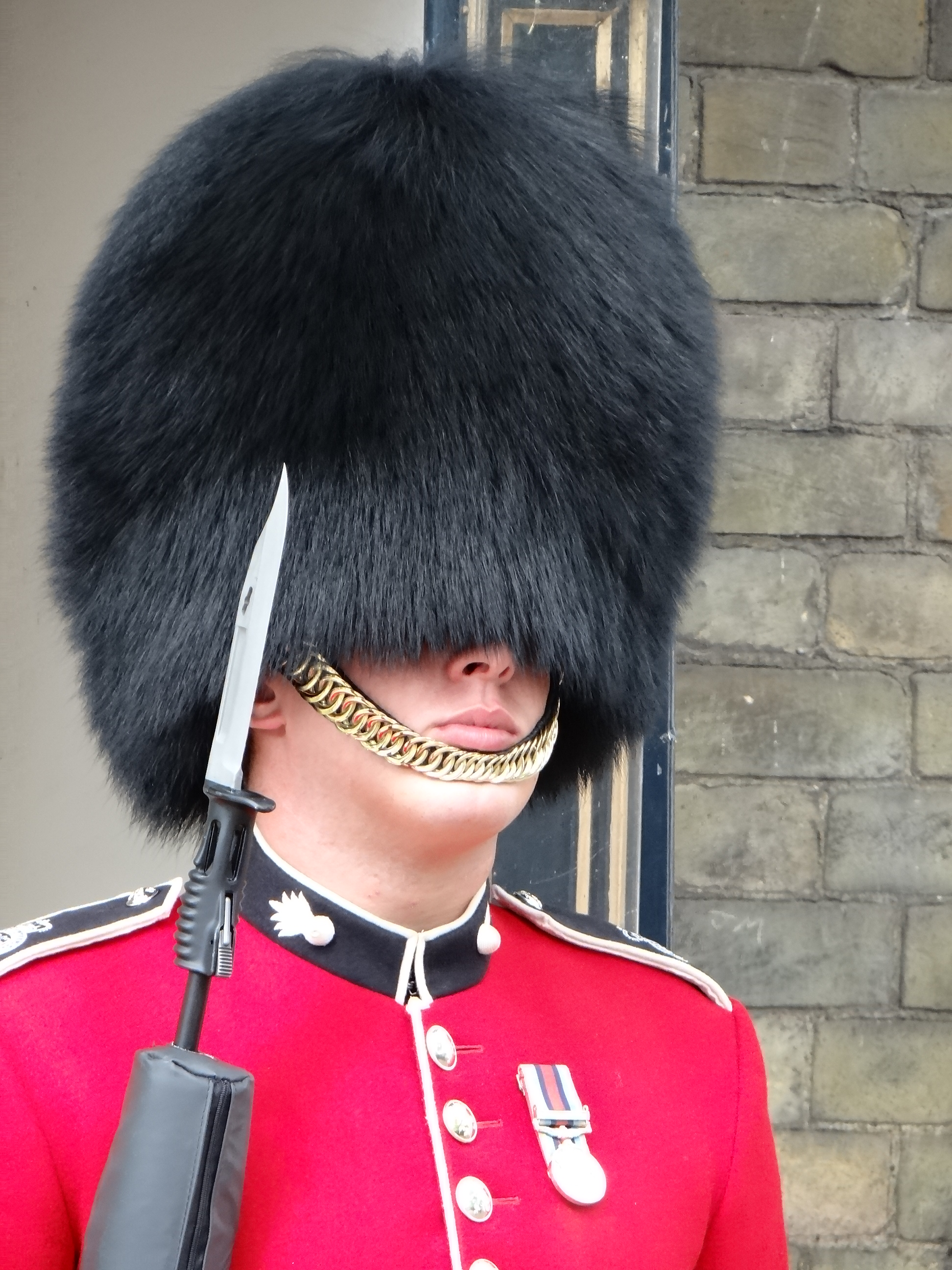 Horse Guard, London